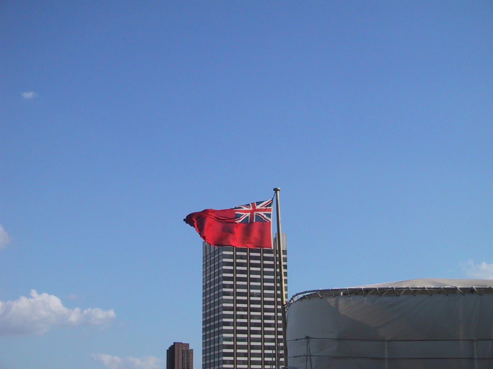 Author: Onecanadasquarebishopsgatecommons Own work